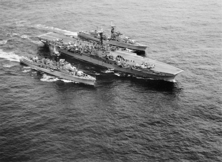 Aerial starboard side view of the Royal Australian Navy aircraft carrier HMAS Melbourne (R21) and the destroyers HMAS Vendetta (D08) and HMAS Voyager (D04) underway, circa in 1959. On the carrier's flight deck, two Gannet anti submarine aircraft are spotted forward with another to port abreast the island. Three Sea Venom fighters are spotted aft of the island.